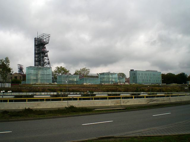 New Silesian Museum building in Katowice